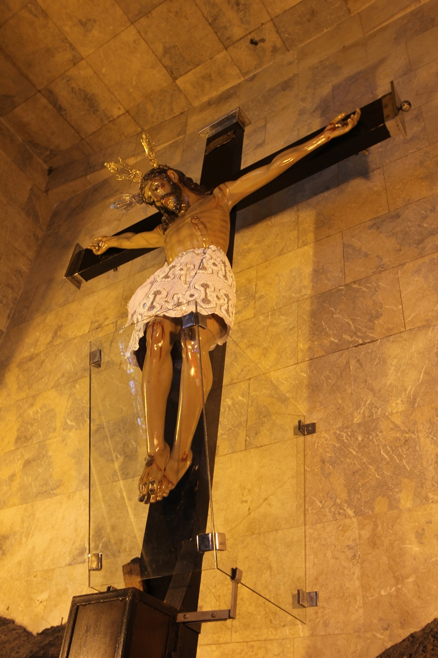 Santuario del Sto. Cristo - Santo Cristo Image (full)